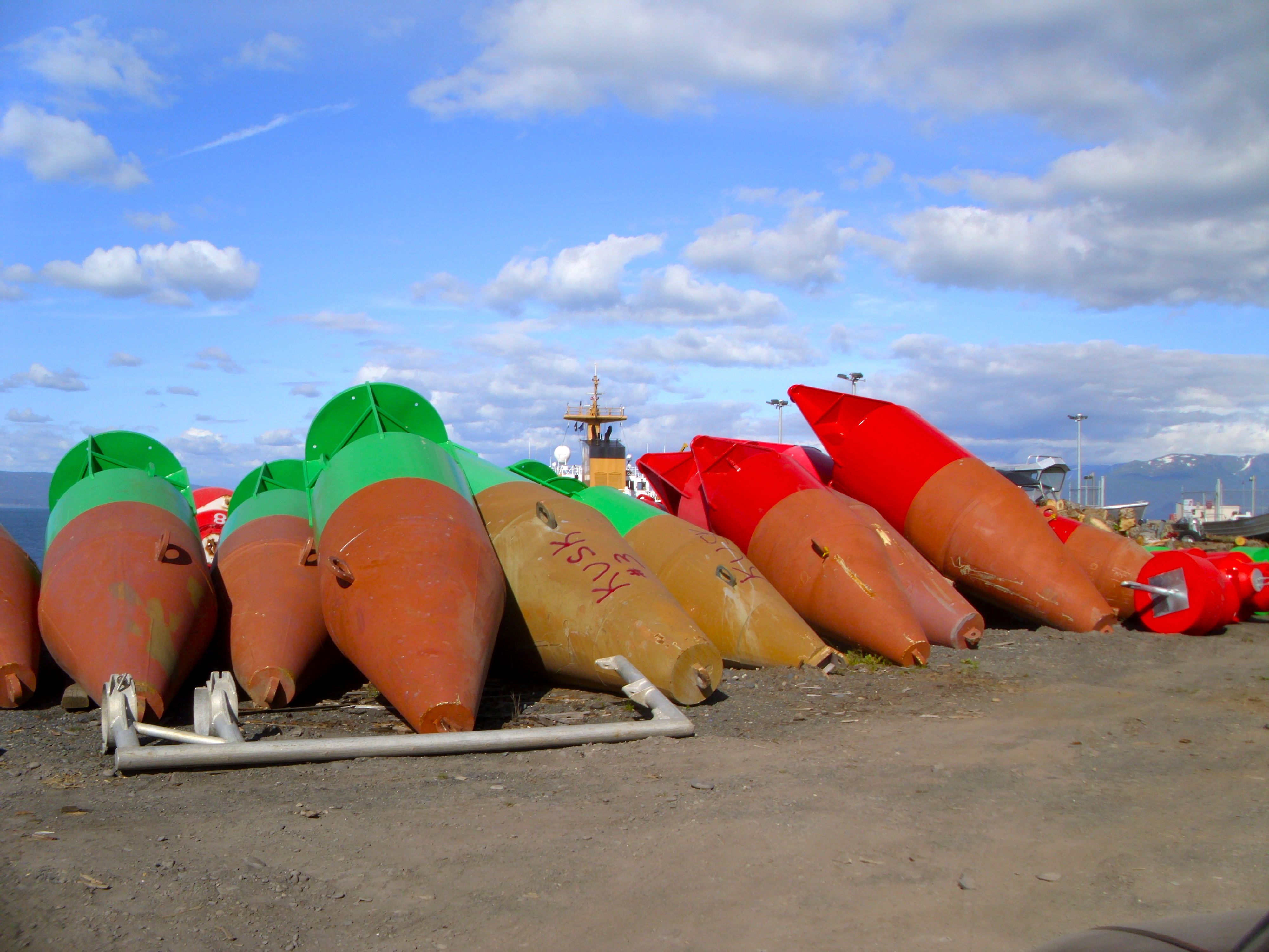 various buoys in US Coast Guard storage area, Homer Spit, Homer, Alaska